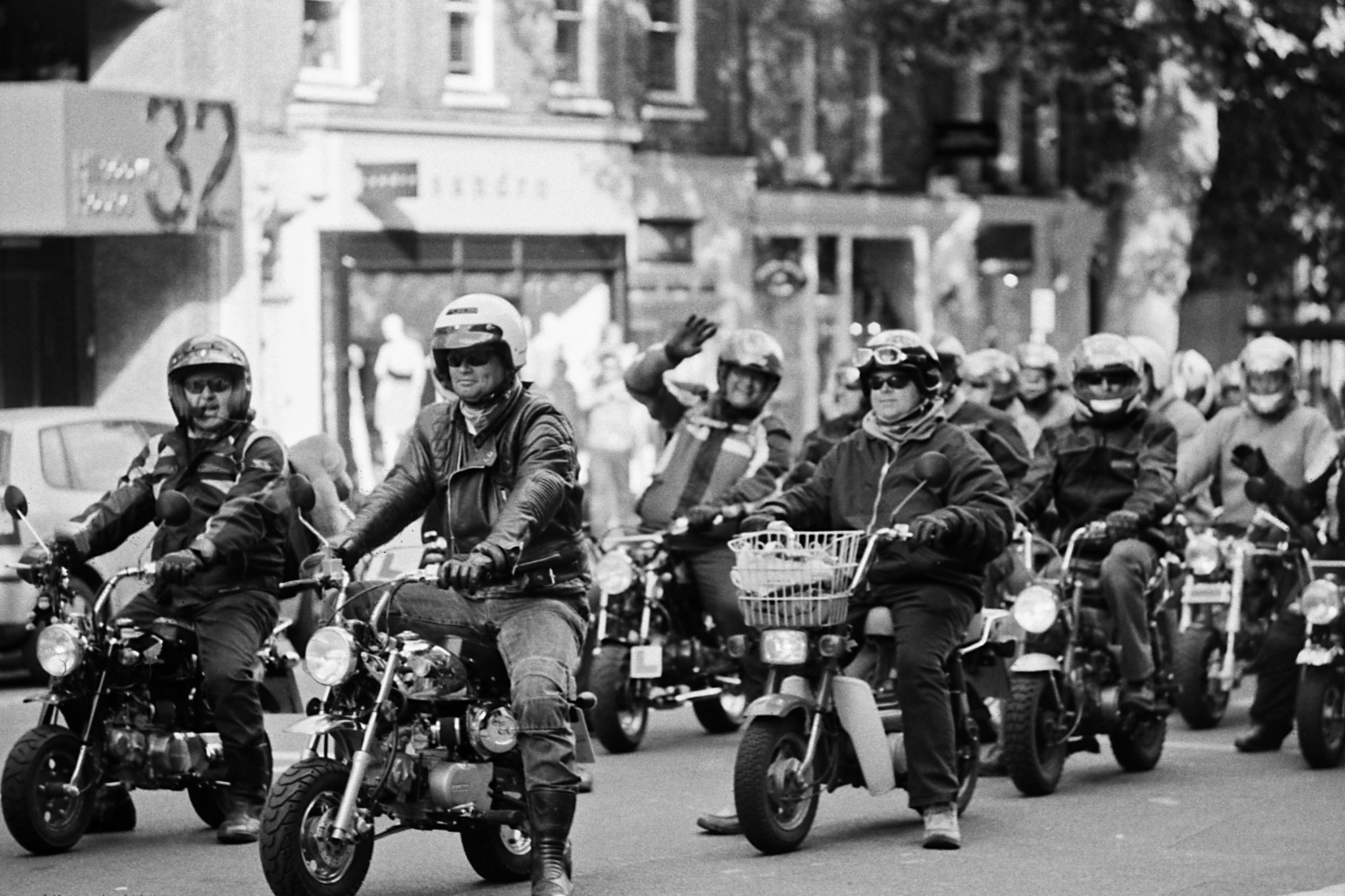 Honda Monkey bikes in Hampstead on a sunny Sunday. 8 Film: Ilford HP5 Plus 400